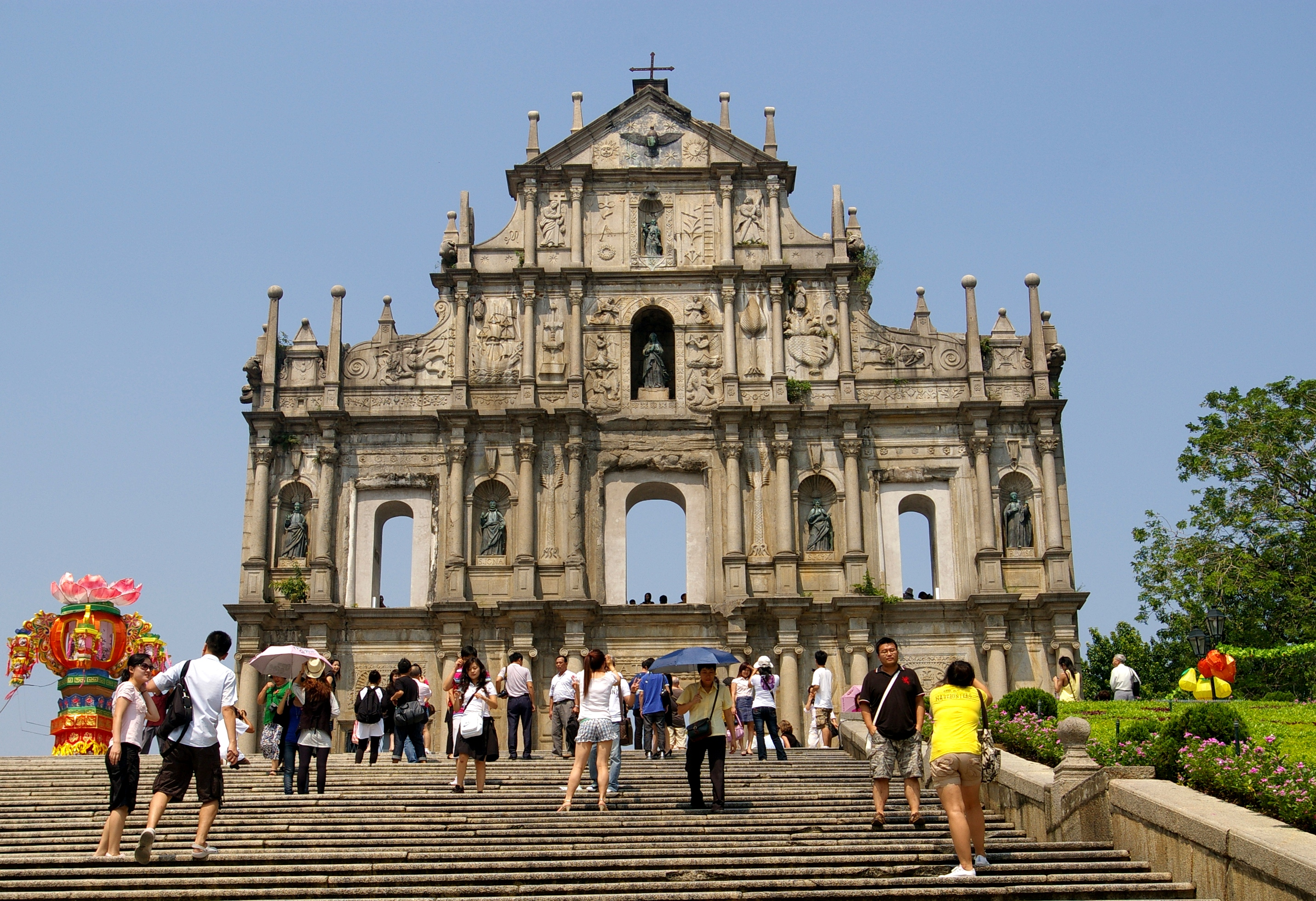 Ruins of St. Paul's Cathedral in Macau